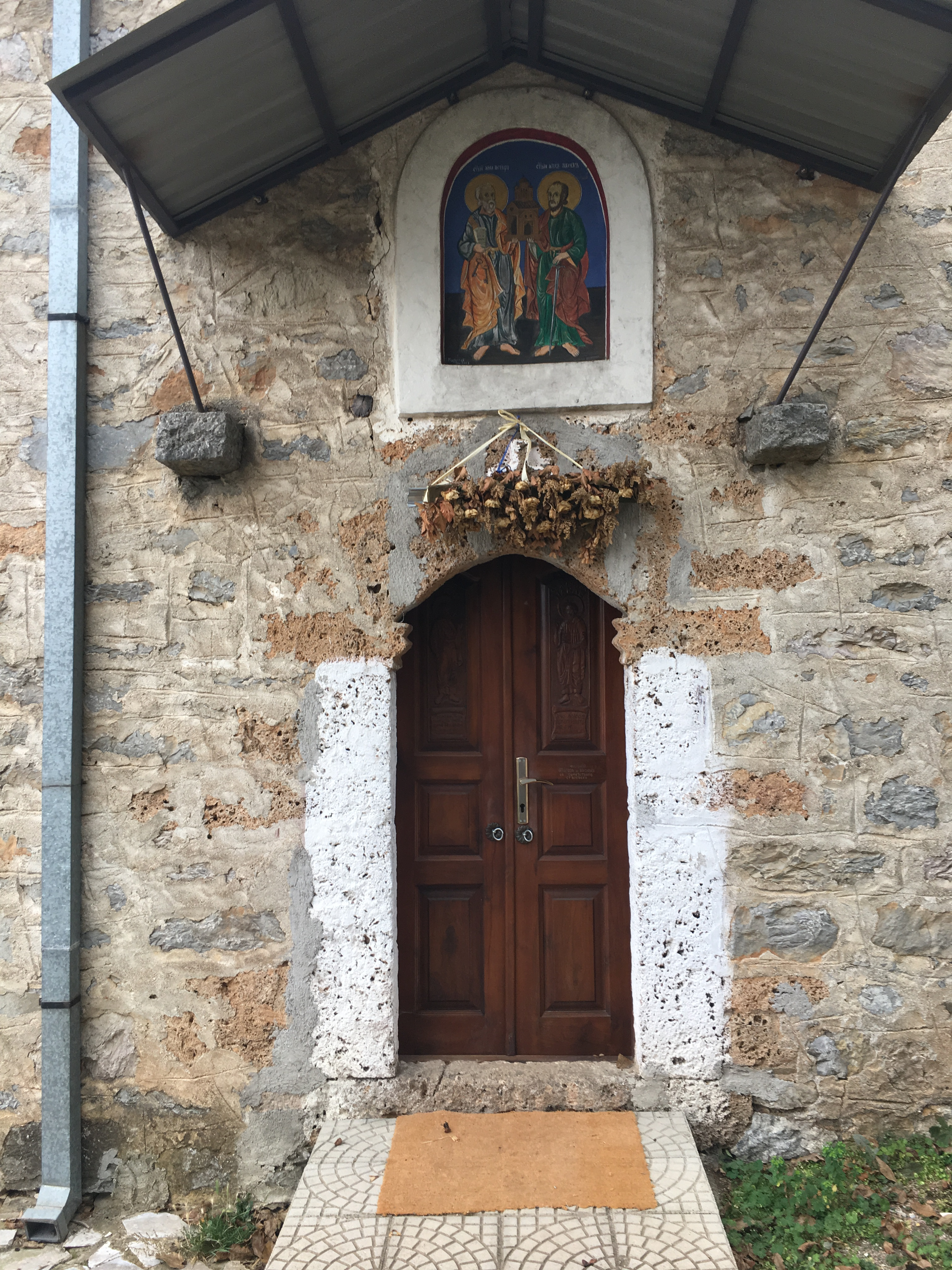 Wikiexpedition to Kopačka